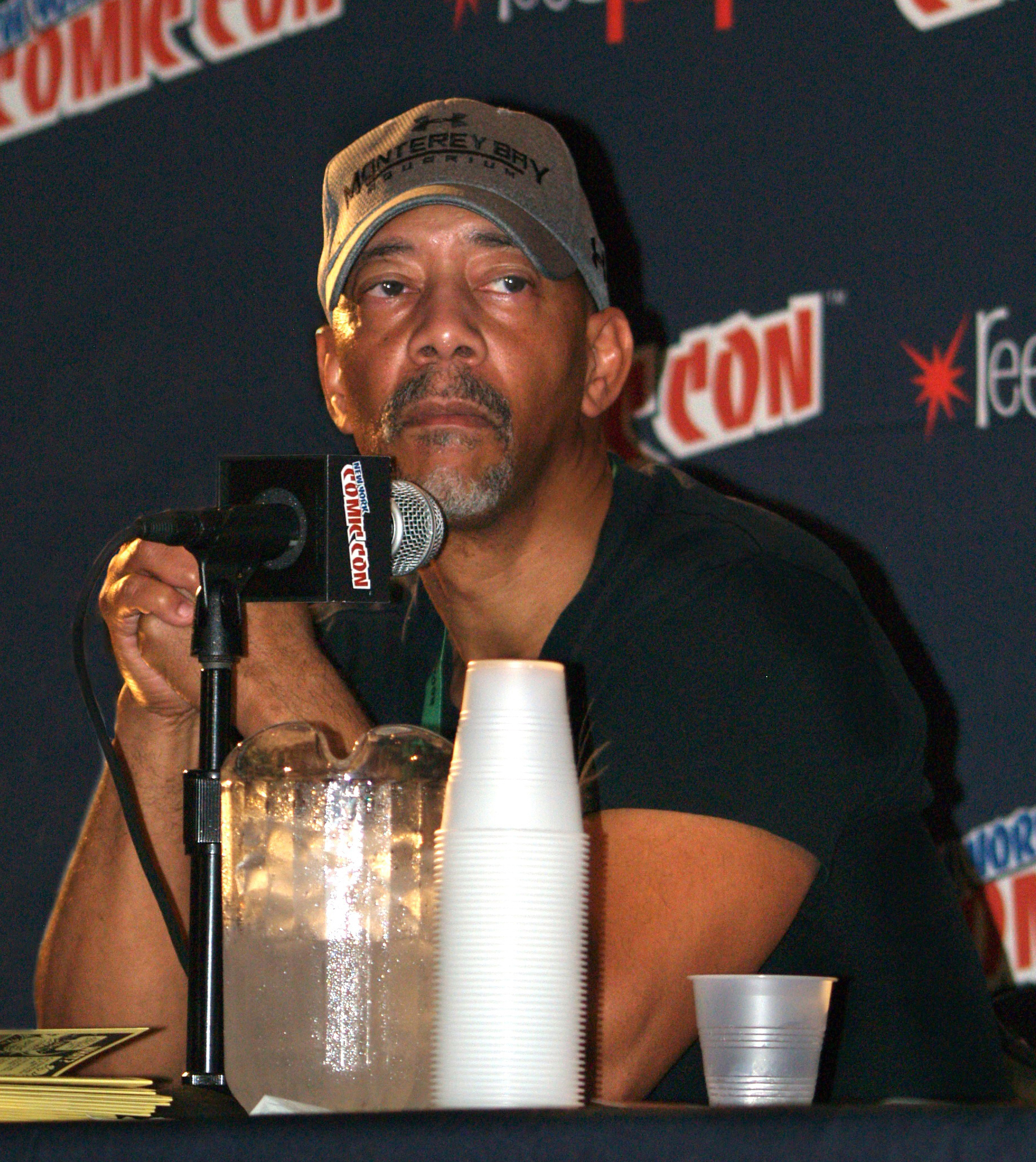 Comics artist and television producer Denys Cowan at "The Return of the Dakota Universe" panel discussion on Thursday, October 5, 2017 at the Jacob K. Javits Convention Center in Manhattan, Day 1 of the 2017 New York Comic Con. This photo was created by Luigi Novi. It is not in the public domain, and use of this file outside of the licensing terms is a copyright violation.